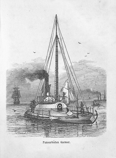 Old image of the Swedish monitor HMS Garmer.